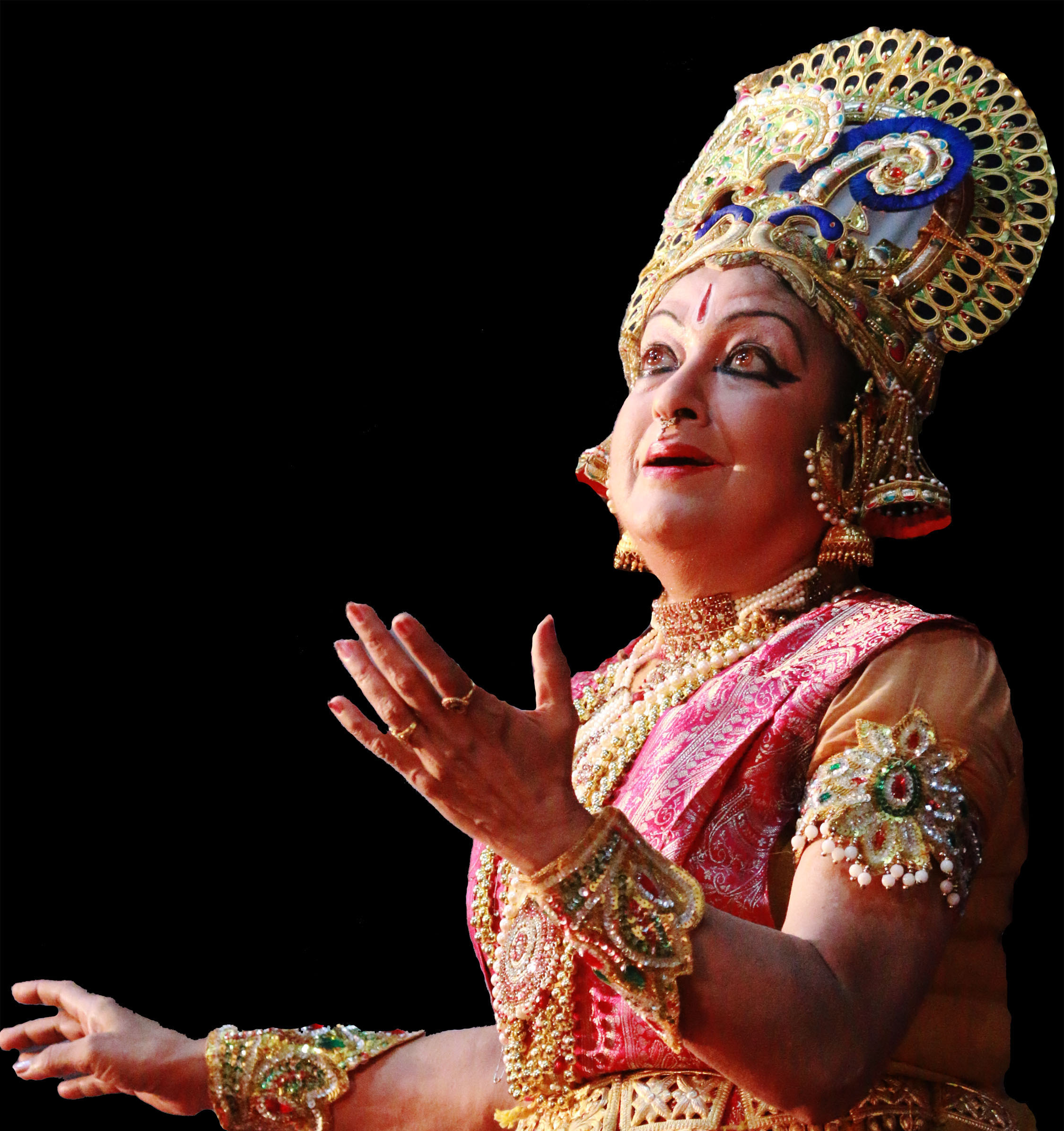 Vishwaroopa Dharshanam from Bhagavath Geetha presentation of the Guru Padma Subramanyam